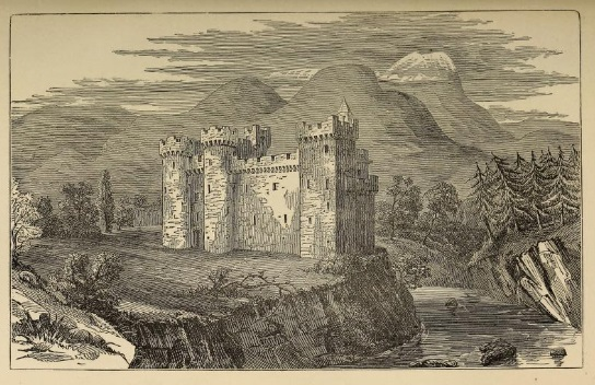 Engraving of Tor Castle, historic seat of the chiefs of Clan Chattan, Clan Mackintosh and later the Clan Cameron. It was located near to Fort William in the Scottish Highlands.